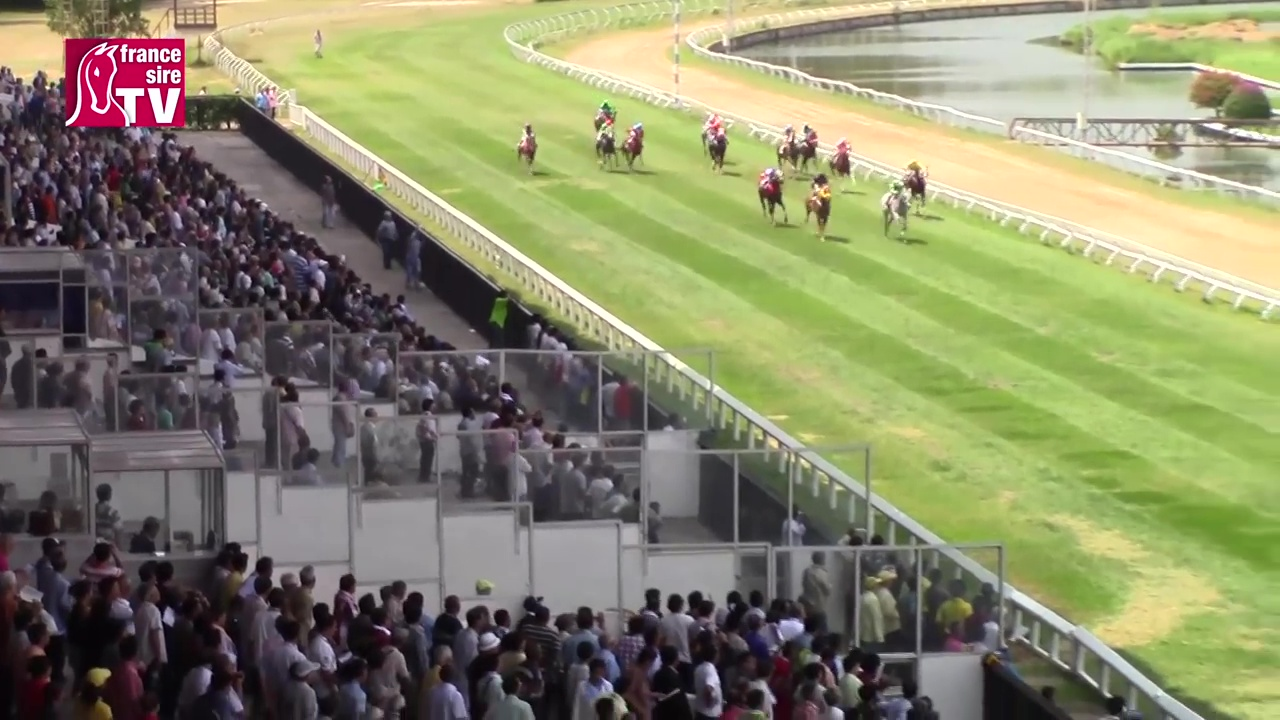 A horse race at the Royal Turf Club of Thailand